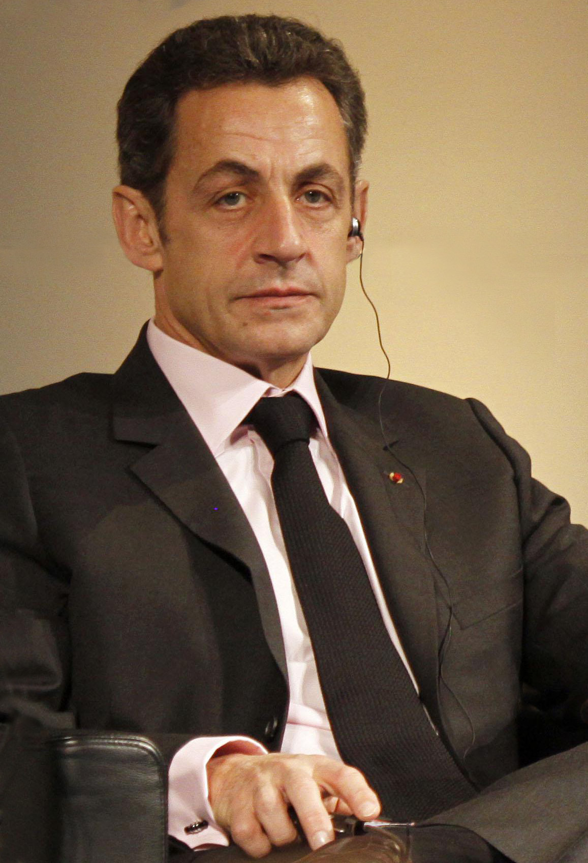 45th Munich Security Conference 2009: Dr. Angela Merkel (rh), Federal Chancellor, Germany, and the French President, Nicolas Sarkozy(le), during the following discussion.